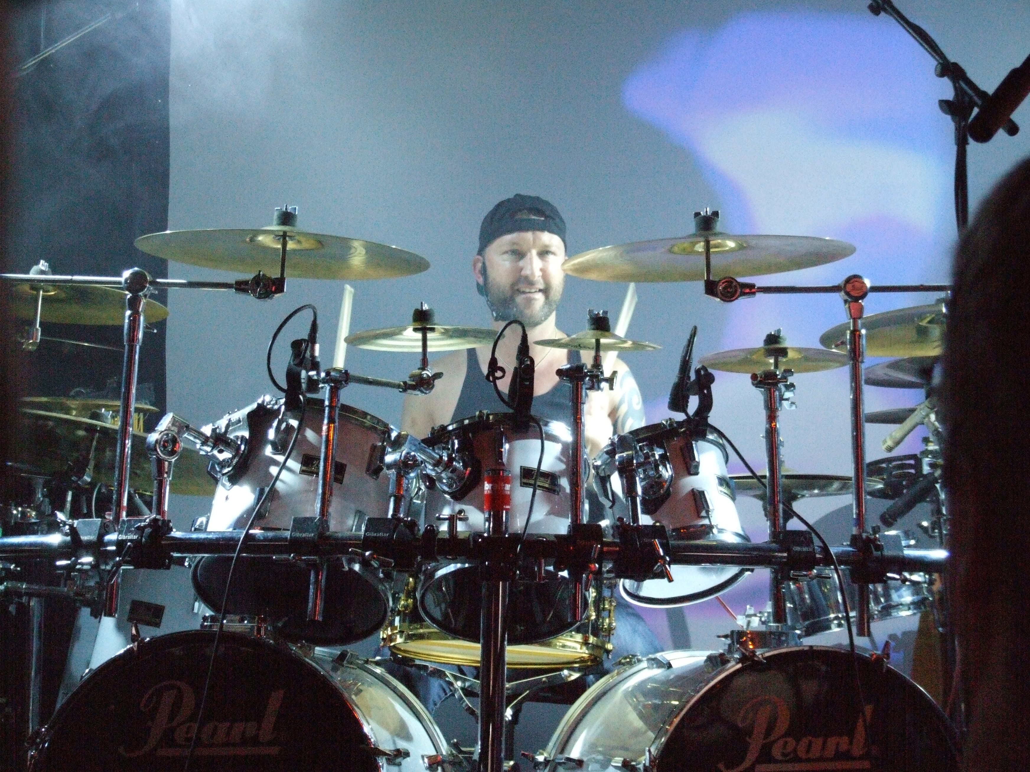 Scott Higham, drummer and back singer of british Prog-Rockband Pendragon, Concert in Aschaffenburg, Music-Club "Colos-Saal" a former cinema